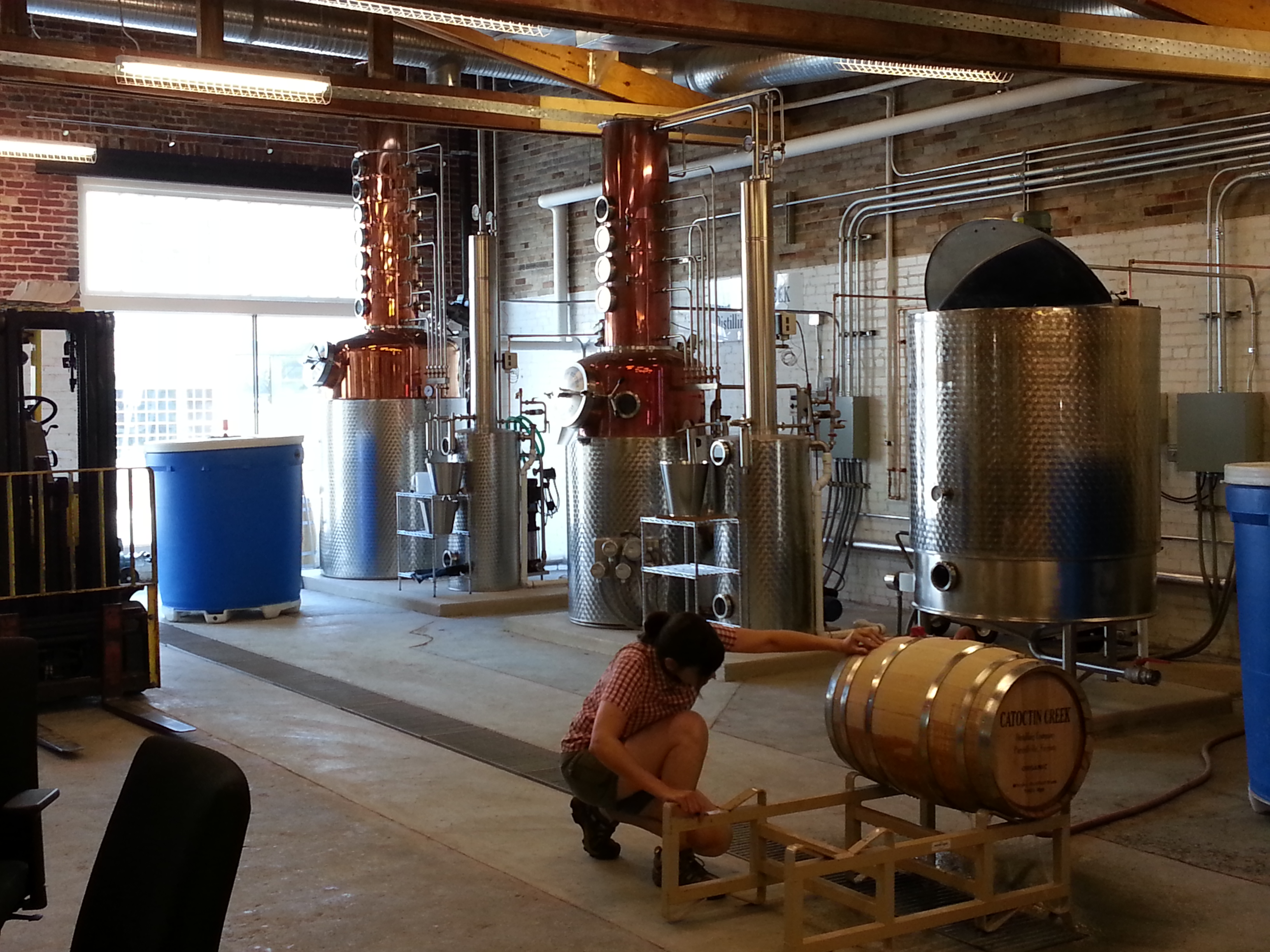 The potstills and mash tun at Catoctin Creek Distillery in Old Town Purcellville, Virginia. Rebecca Harris, founder of the distillery, checks a barrel for leaks.